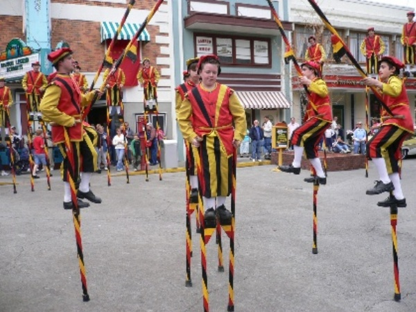 Koninklijke Steltenlopers Merchtem